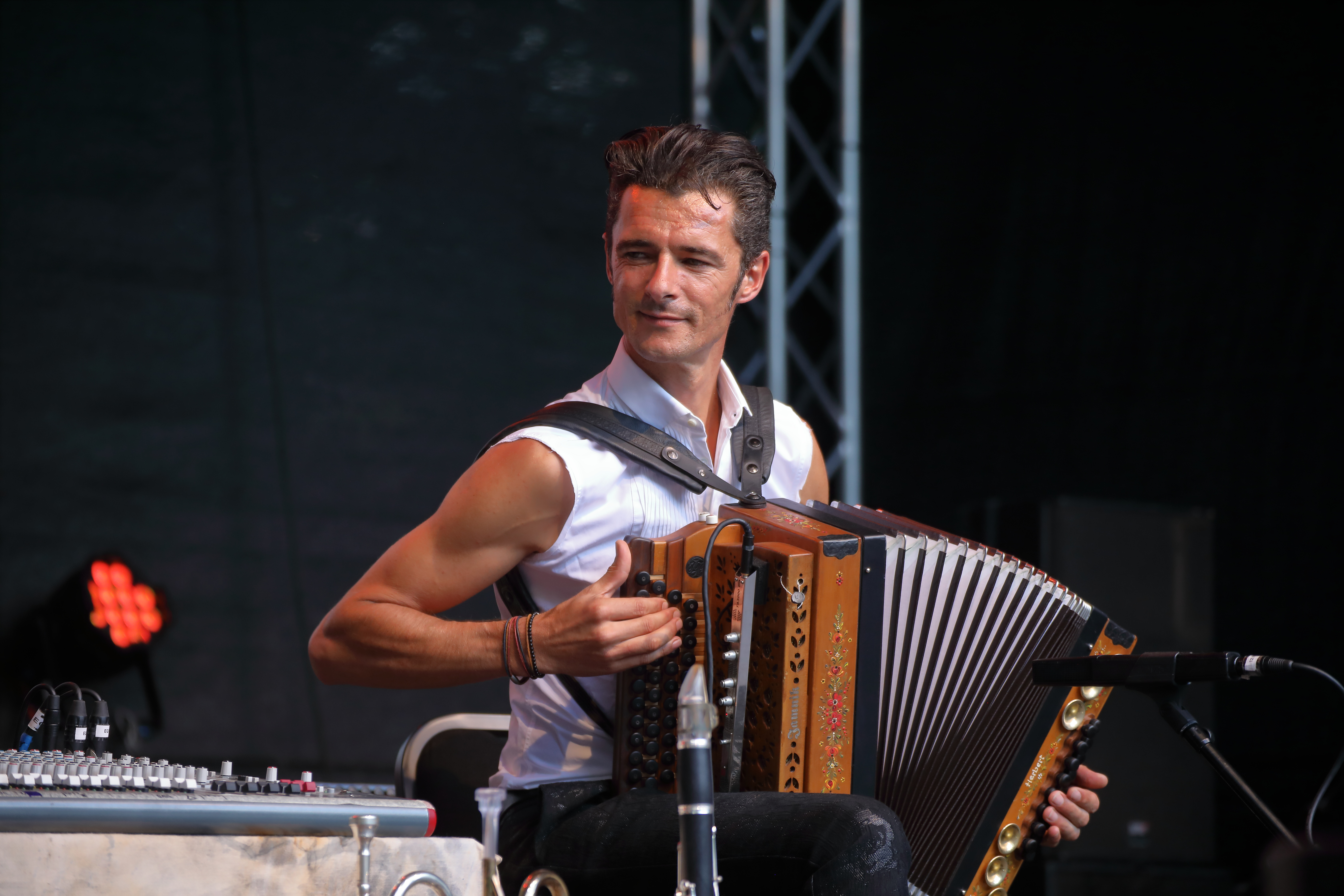 Herbert Pixner on the small stage in Heinepark at Rudolstadt-Festival 2019.